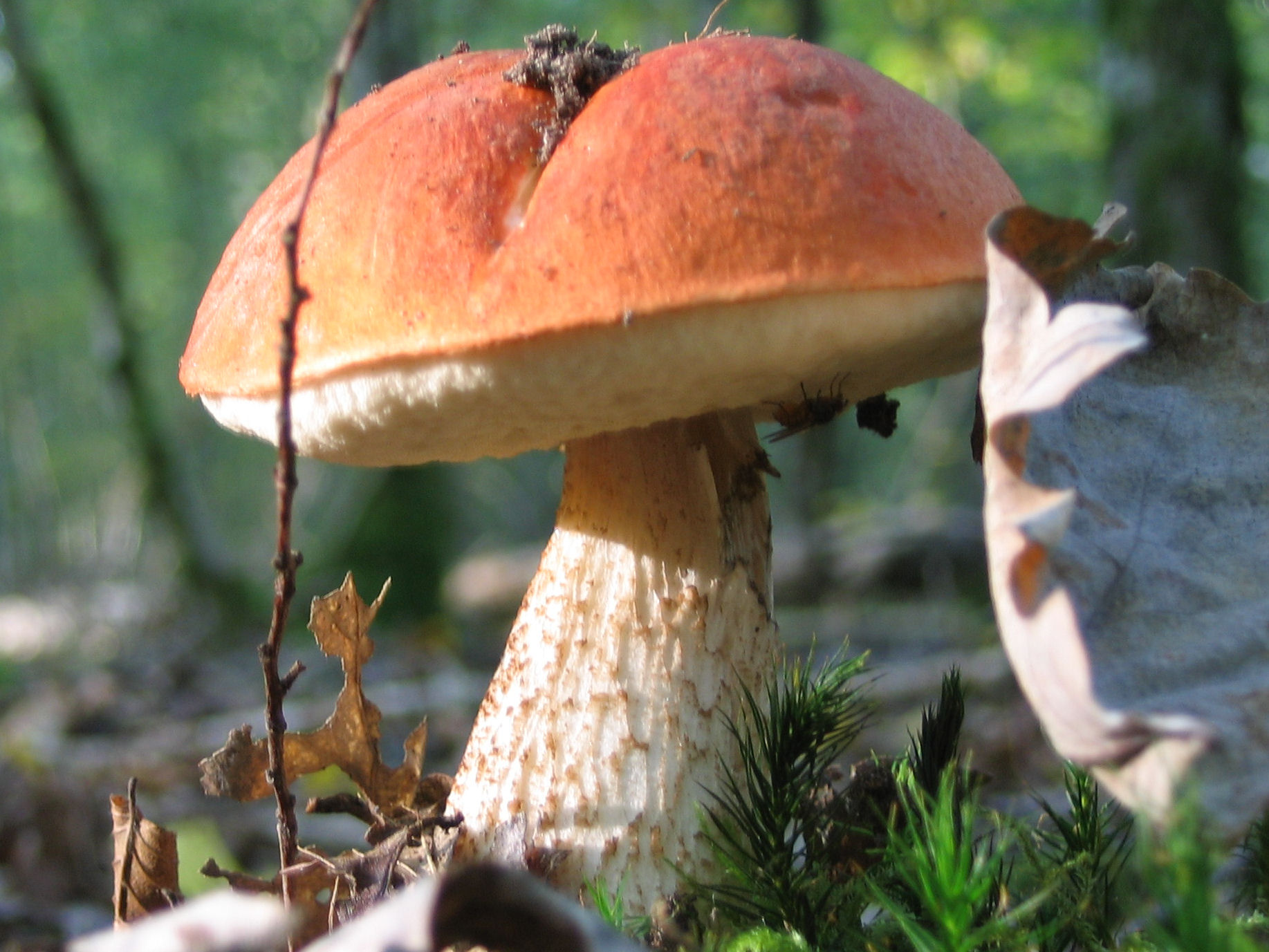 Leccinum aurantiacum